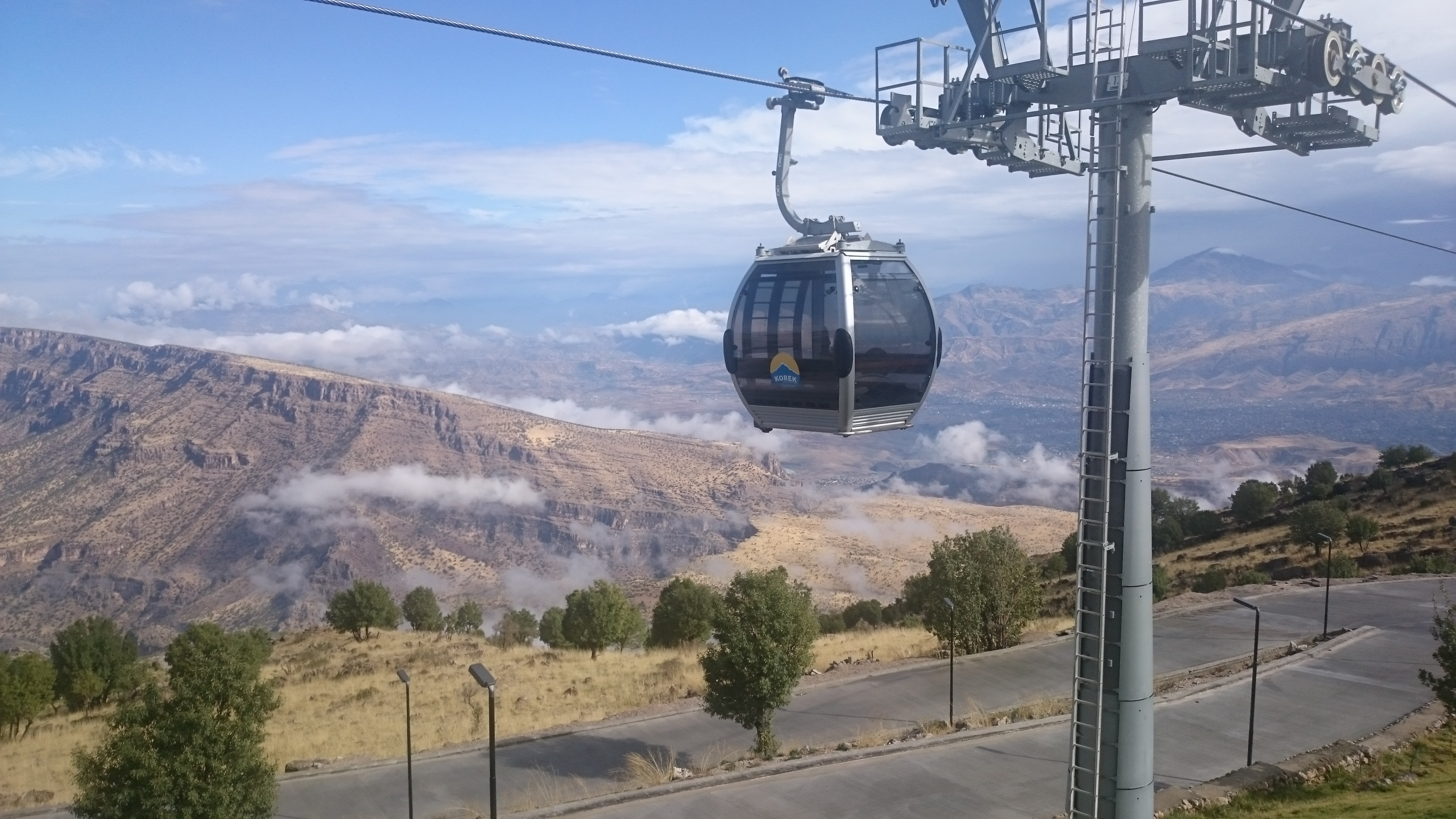 Korek teleferic is the only way to reach this Beautiful resort